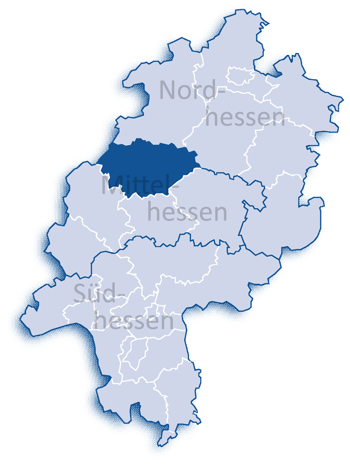 The map shows the district Marburg-Biedenkopf. A district in Hesse